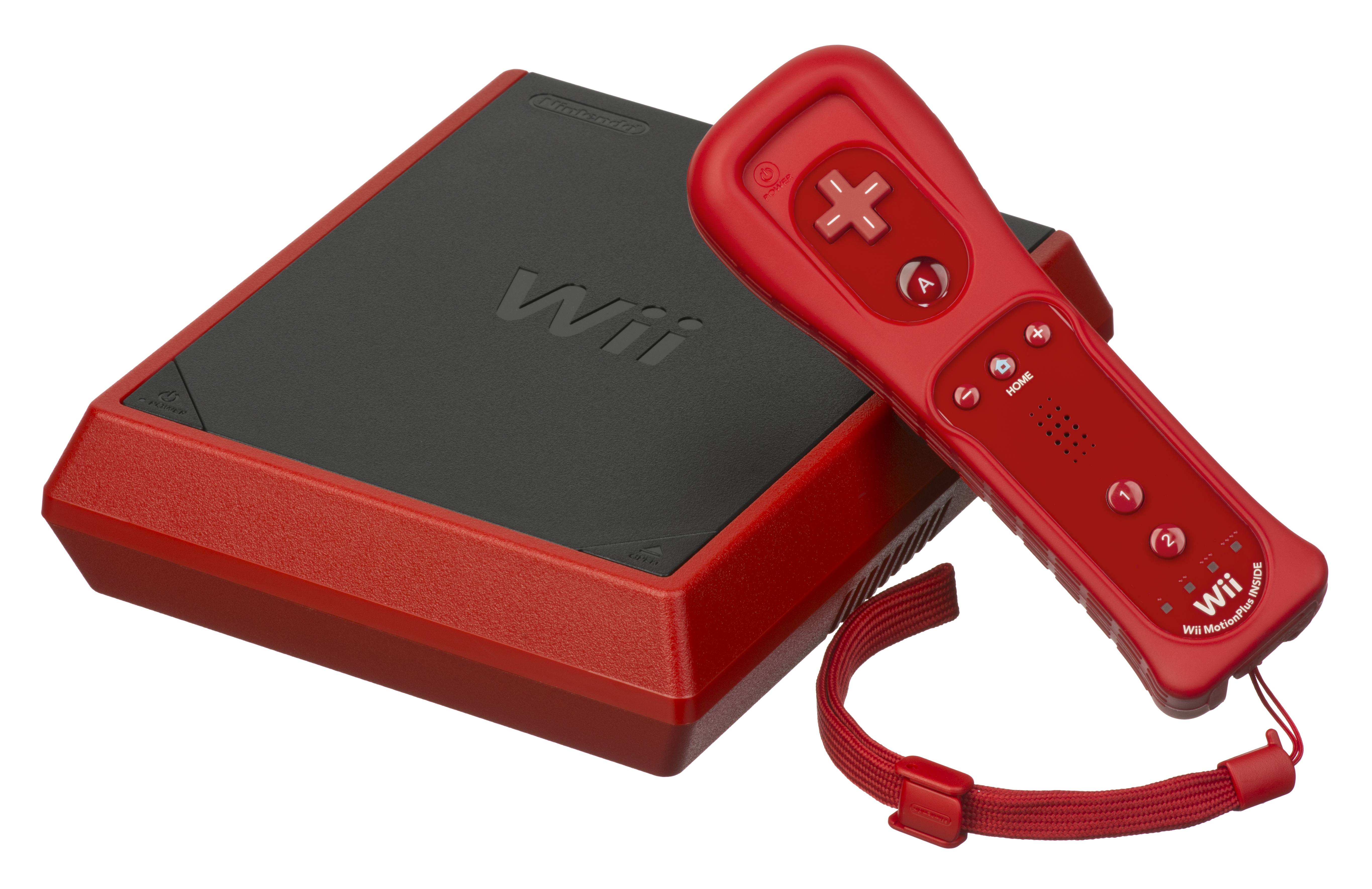 A Wii Mini that is shown with its included Wii remote controller. The Wii Mini is a seventh-generation gaming console manufactured by Nintendo and was first released in Canada in 2012. This is the third revision of the Wii gaming console and was introduced to the market as a cheaper alternative to the still-available second revision. Compared to previous models, this model removes all internet connectivity and ability to display video out with component cables. With no access to the internet, it can not play Virtual Console titles, and therefore can only play games made for the Wii platform. The Wii Mini was first made available in Canada as a test market in 2012, which is notable since it was not even available in Nintendo's home country, Japan. It was later made available in Europe and the United states in 2013. In the United State it retails for $99.99 and comes bundled with the game Mario Kart Wii.